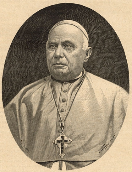 Picture of Josep Morgades i Gili (Vilafranca del Penedès, 1826 - Barcelona, 1901), taken from La tradició catalana, June 1893